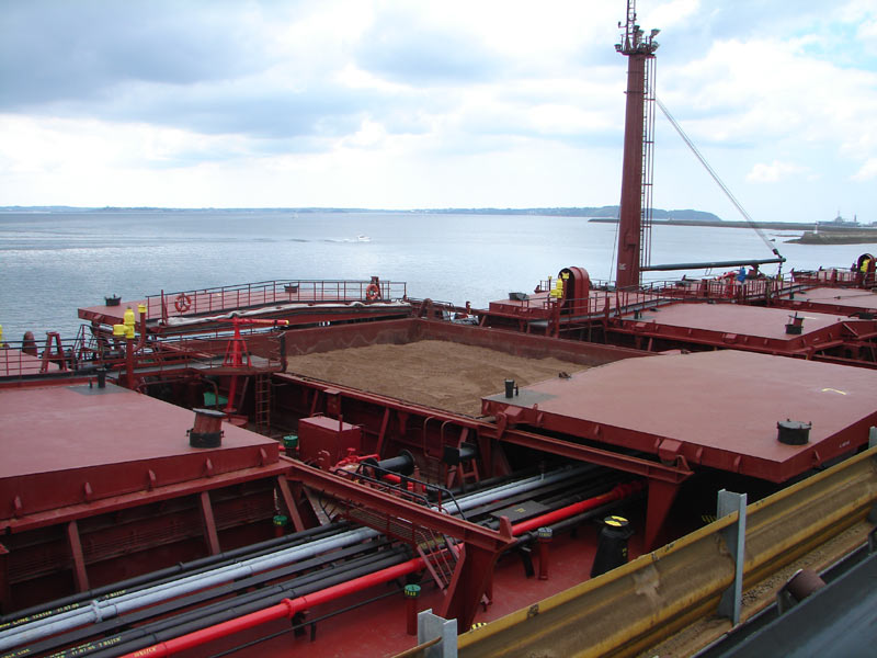 The Ore/Bulk/Oil carrier Maya in Brest. Soya in being carried in the central holds and ballast in lateral tanks.